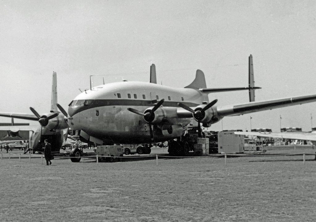 Breguet Br761S No. 03 exhibited at the 1957 Paris Air Salon